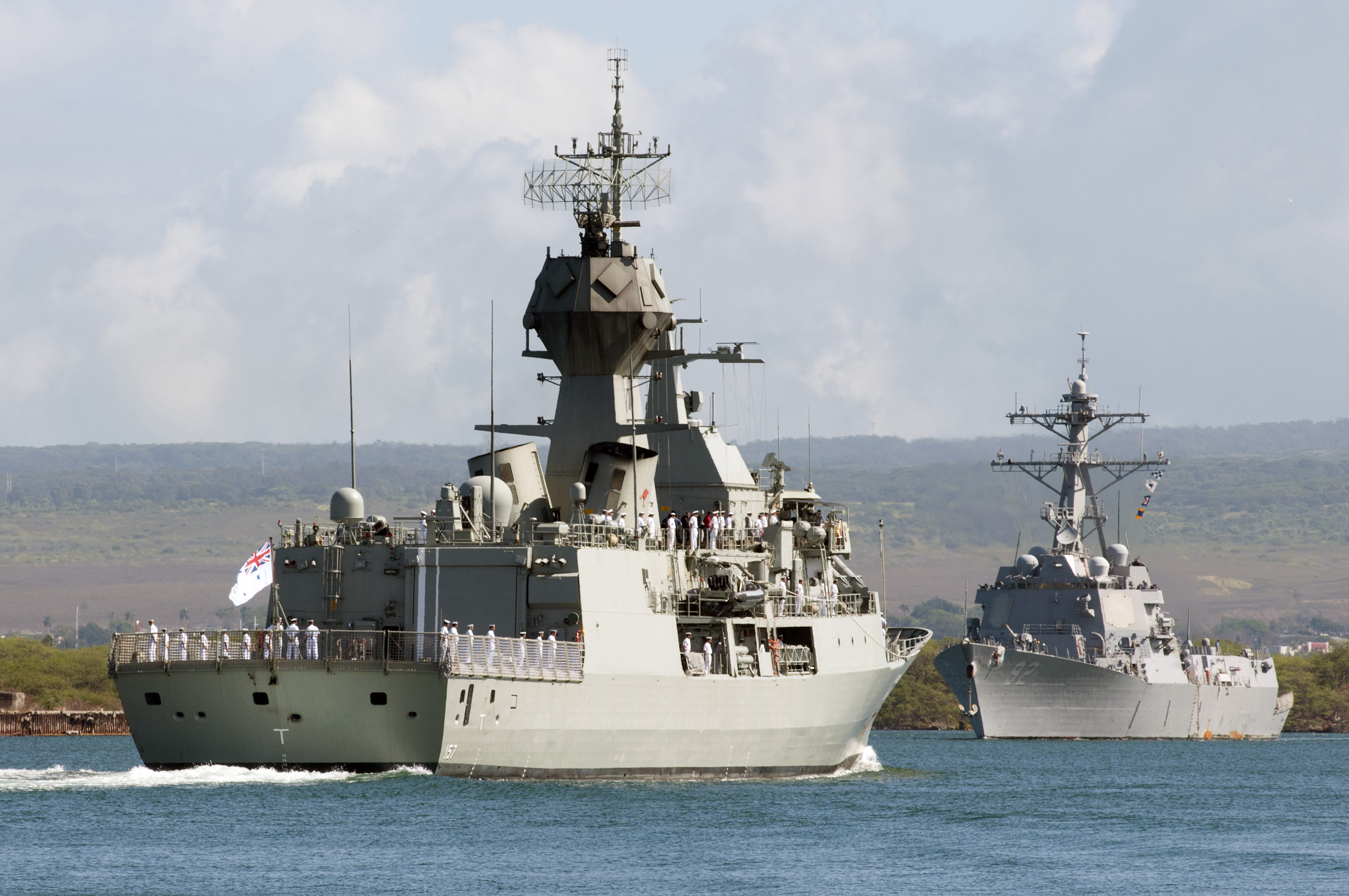 Stern view of HMAS Perth entering Pearl Harbor in June 2012